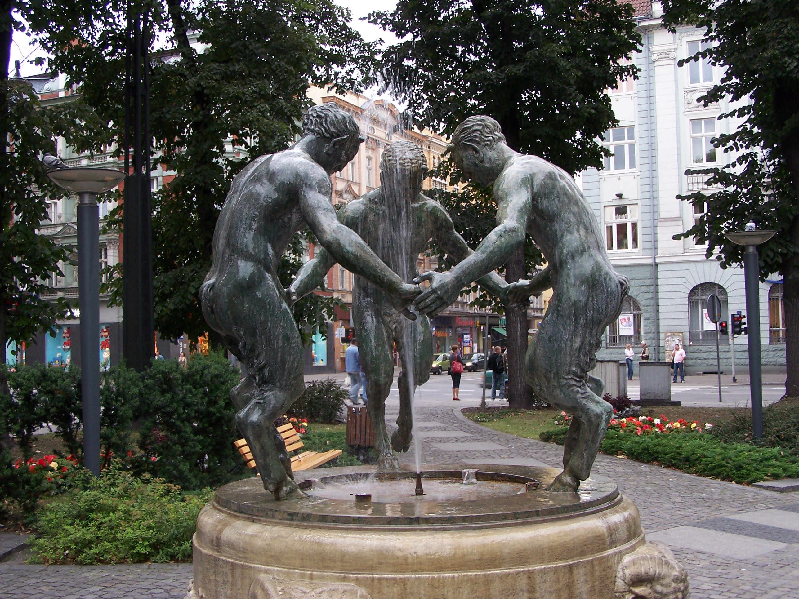 Faun Fountain by Hans Dammann (1928) in Gliwice (Poland).